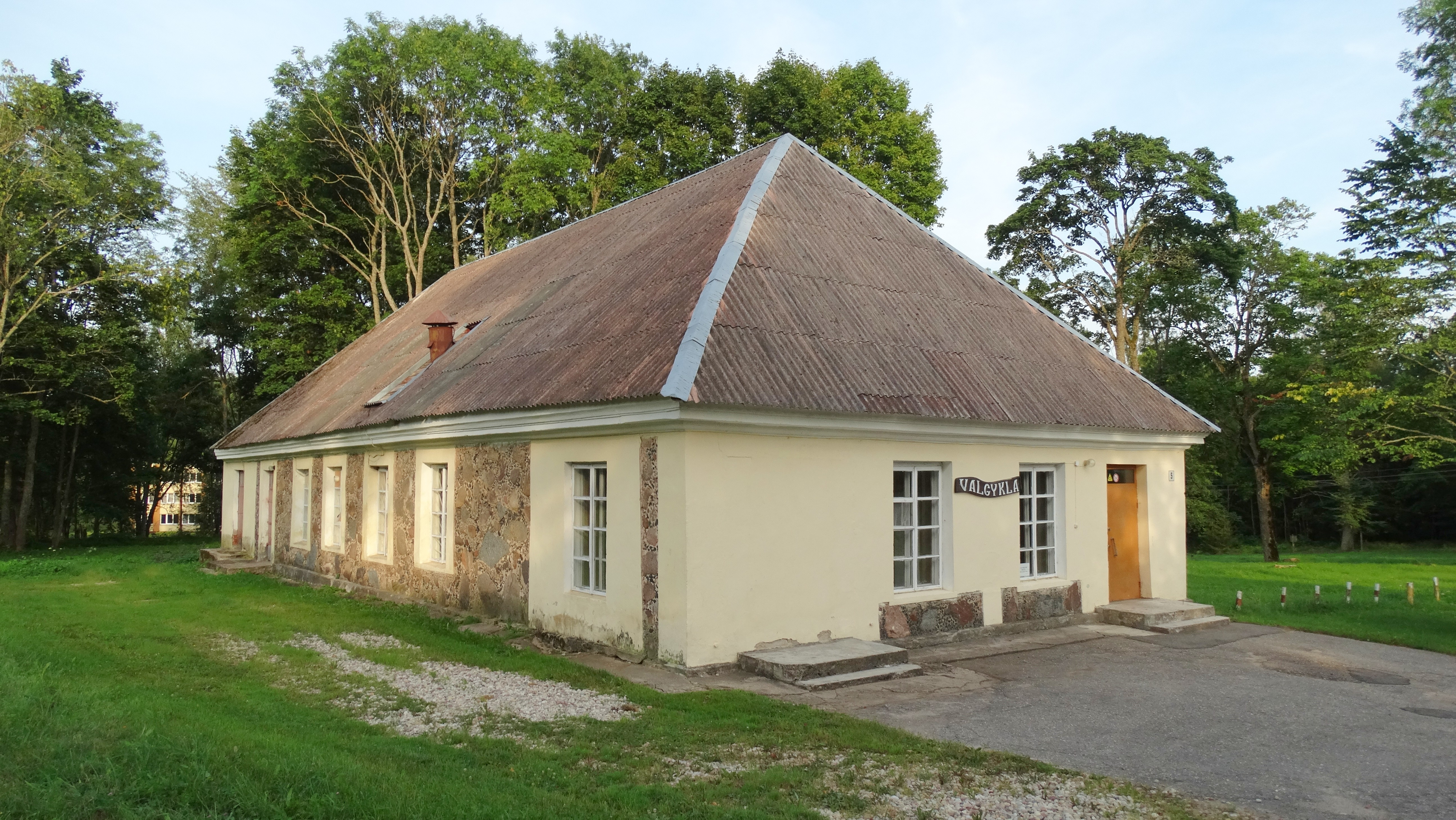 Cirkliškis, Center of Vocational Training, Švenčionys District, Lithuania